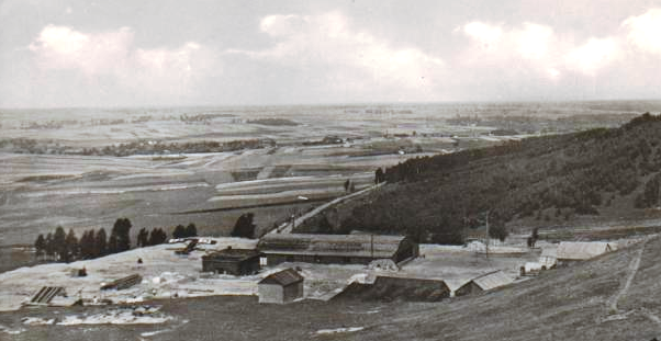 Gliding school